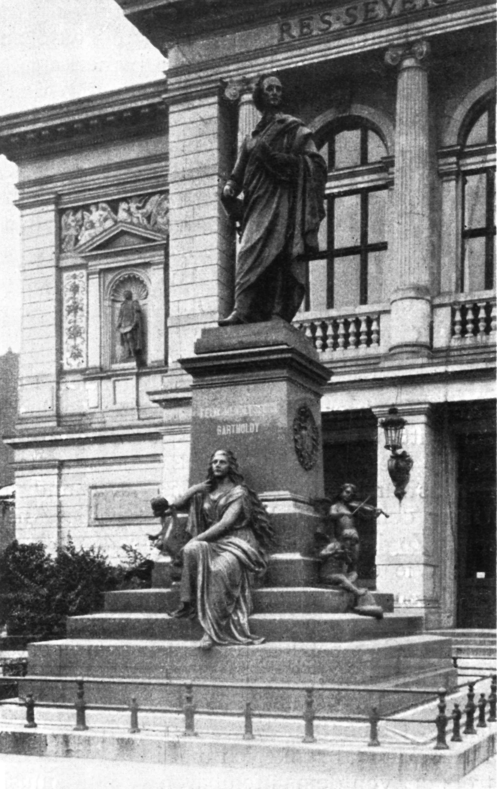 Felix Mendelssohn Bartholdy, old monument in front of the Gewandhaus, Leipzig